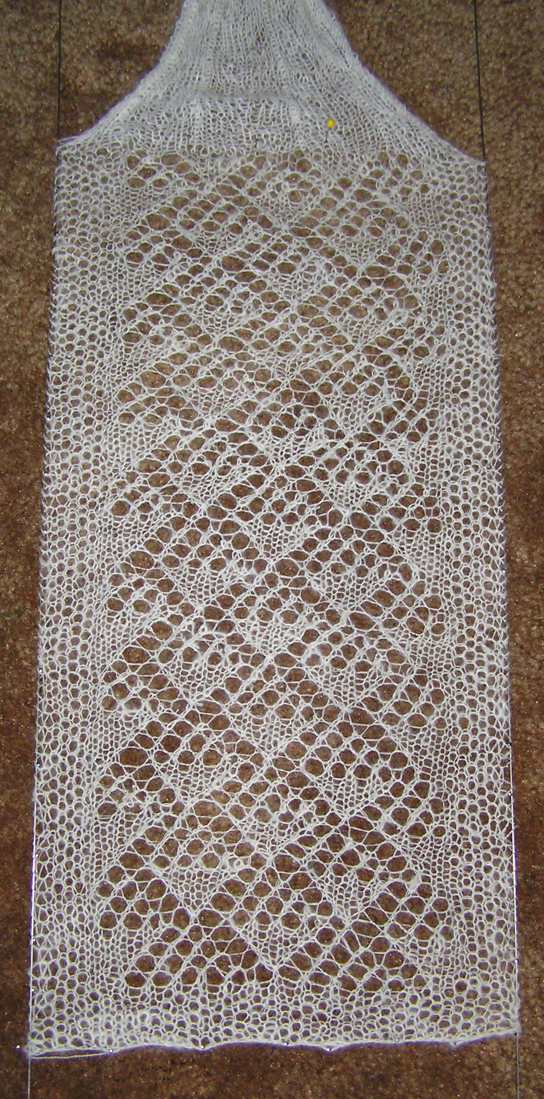 A lace scarf in the process of being blocked.